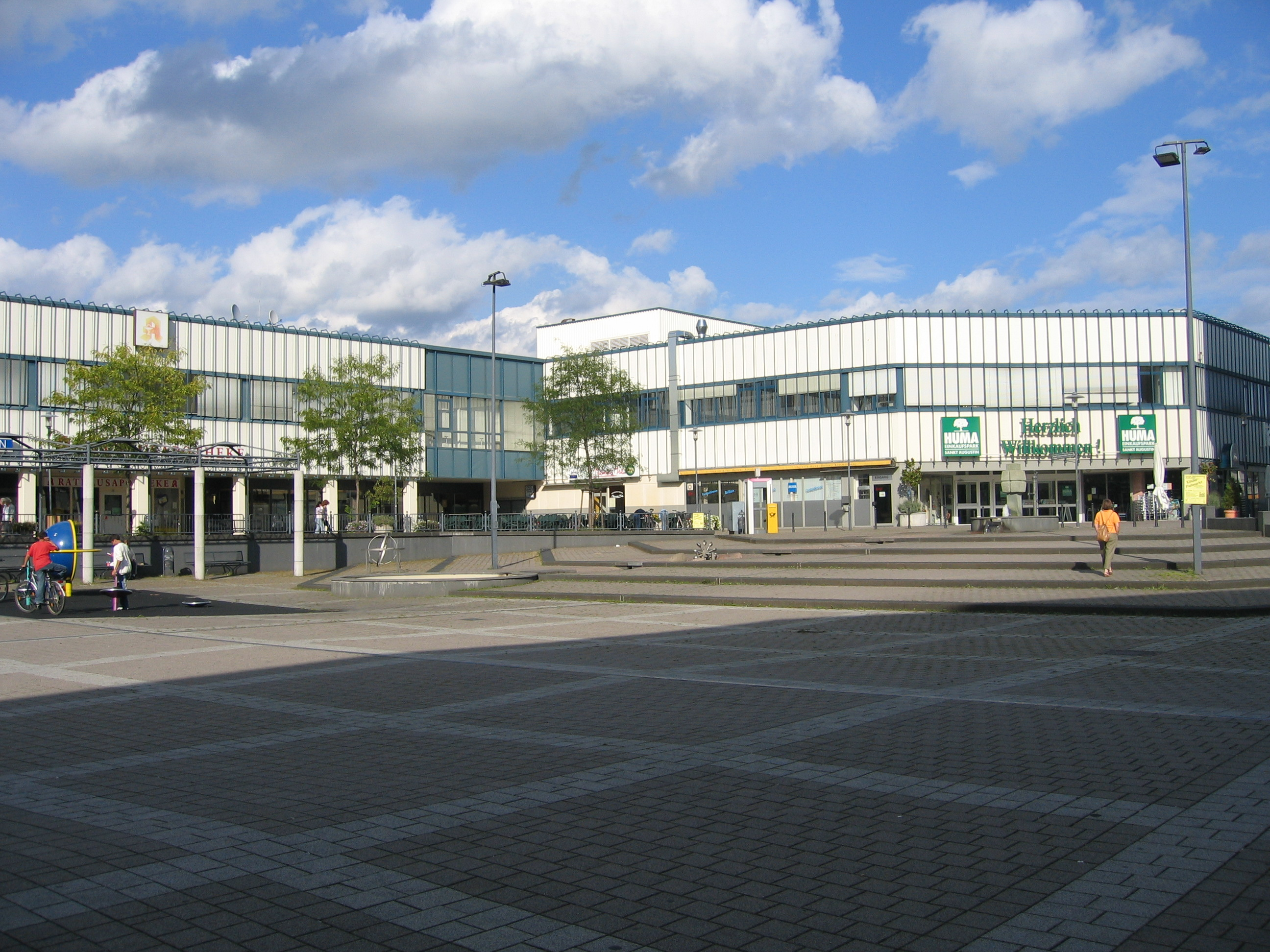 The market platform with the HUMA Shopping Center in Sankt Augustin, Germany.